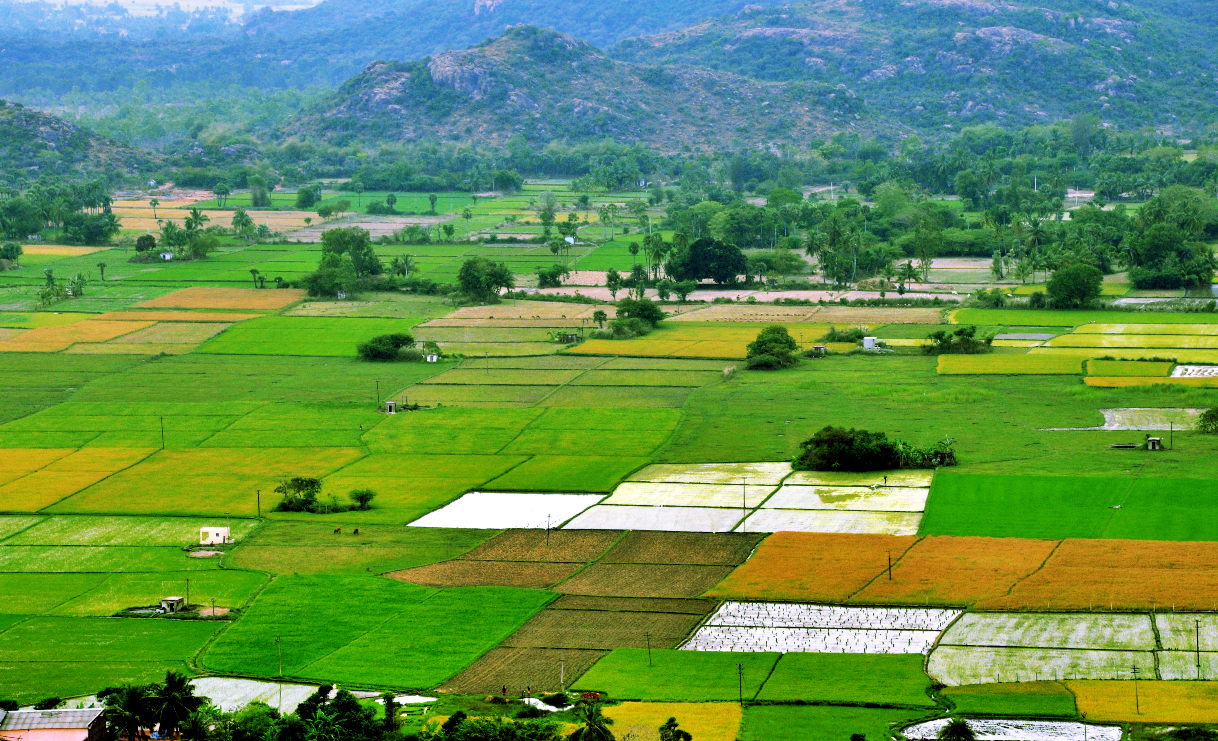 Taken from Vedagiriswarar hill temple — in Tamil Nadu, India.